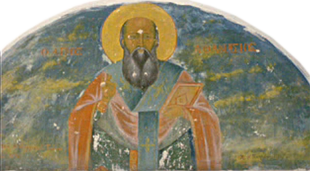 Fresco of Saint Athanasius in Saint Athanasius Church in Rantsi Ermakia